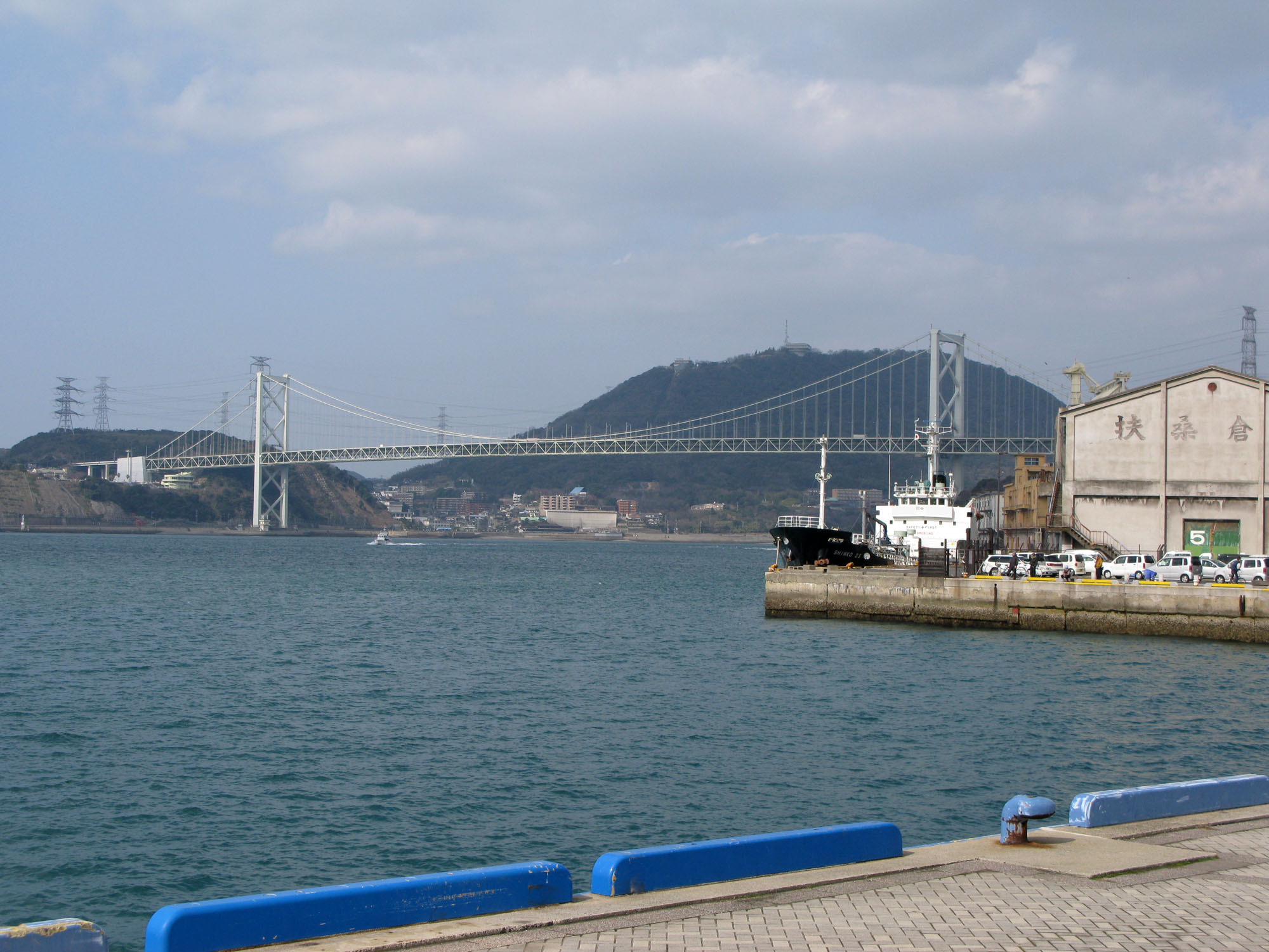 Kanmonkyo Bridge